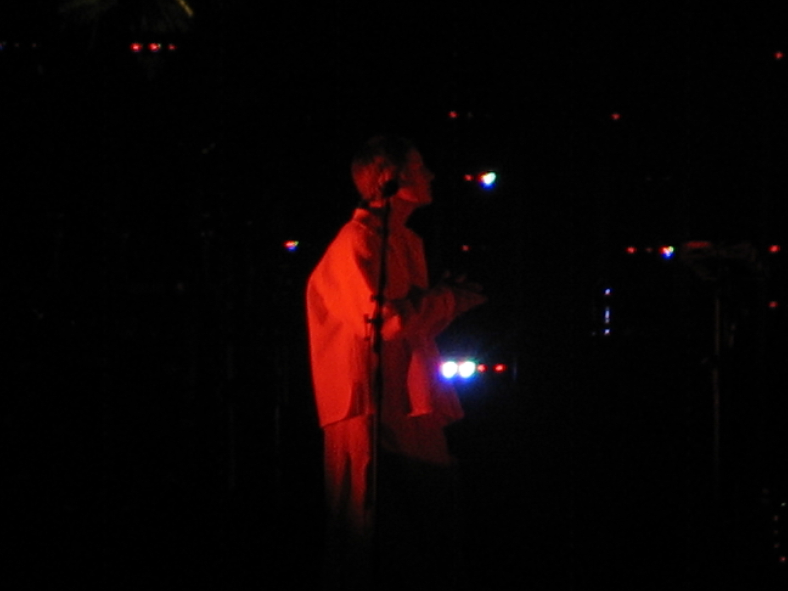 Elizabeth Fraser of Cocteau Twins singing "Teardrop"